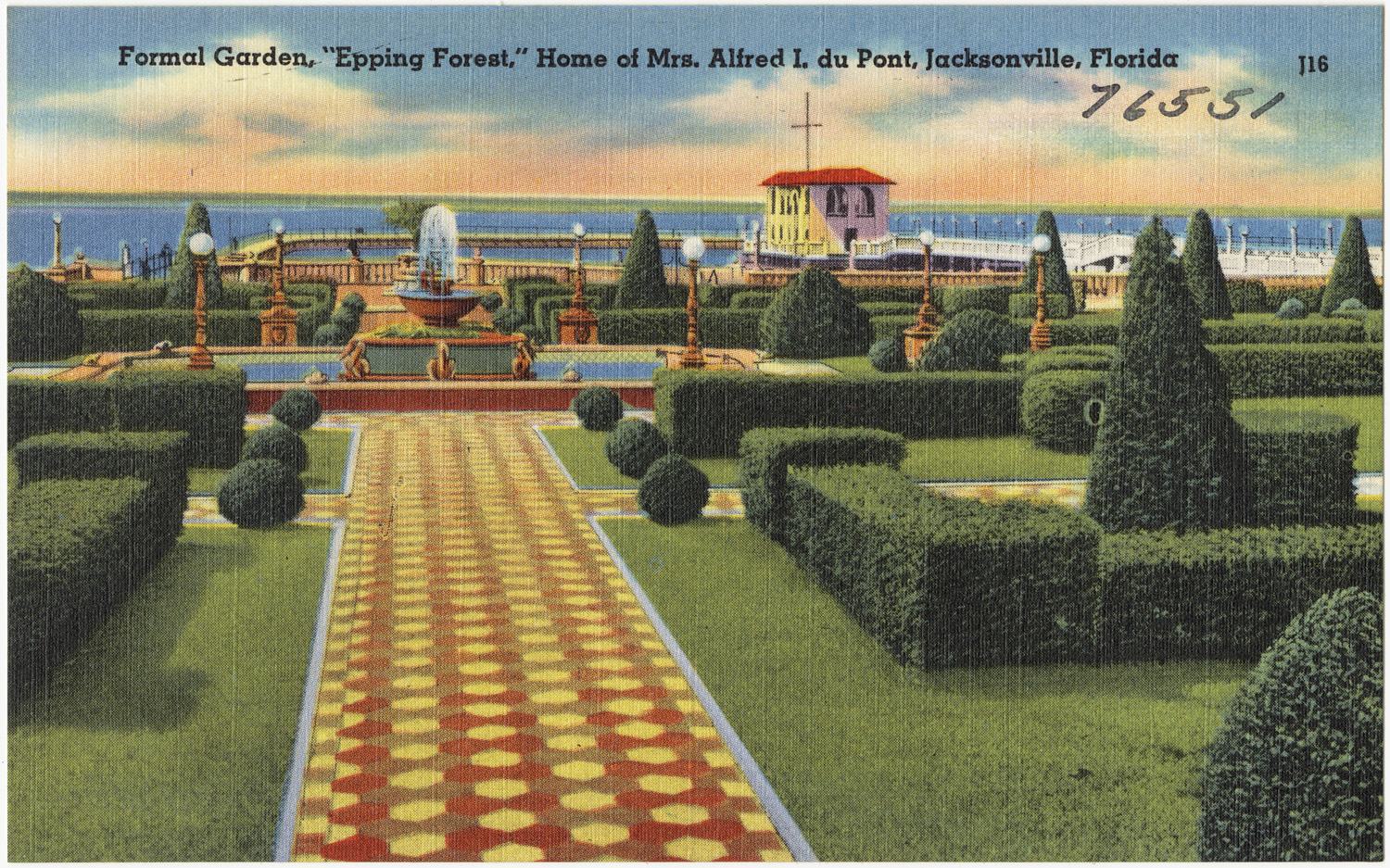 File name: 06_10_006790 Title: Formal garden, 'Epping Forest,' home of Mrs. Alfred I. du Pont, Jacksonville, Florida Date issued: 1930 - 1945 (approximate) Physical description: 1 print (postcard) : linen texture, color ; 3 1/2 x 5 1/2 in. Genre: Postcards Notes: Title from item. Collection: The Tichnor Brothers Collection Location: Boston Public Library, Print Department Rights: No known restrictions